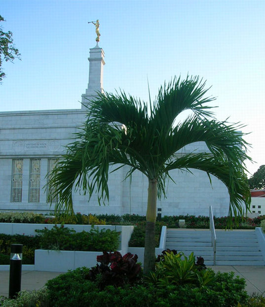 The Villahermosa México Temple of the Church of Jesus Christ of Latter-day Saints.